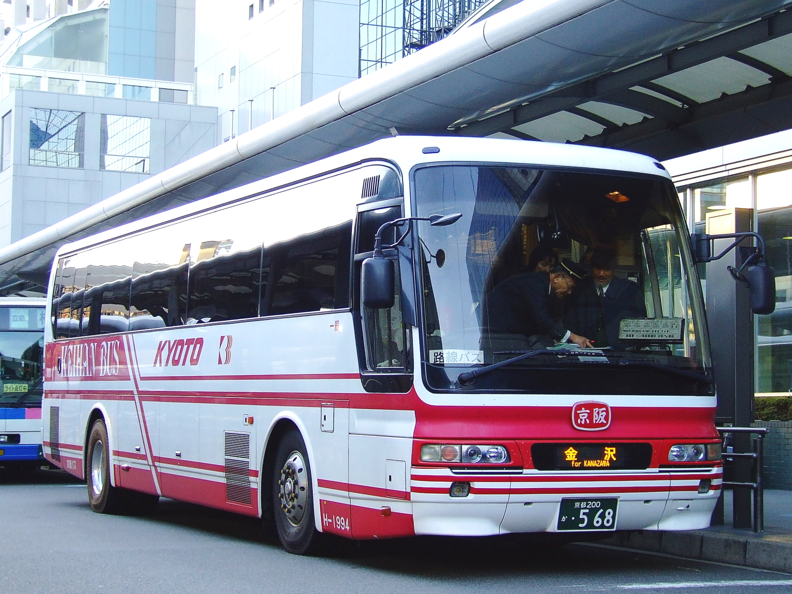 The Keihan bus highwaybus for Kanazawa. At Kyoto station Central side.